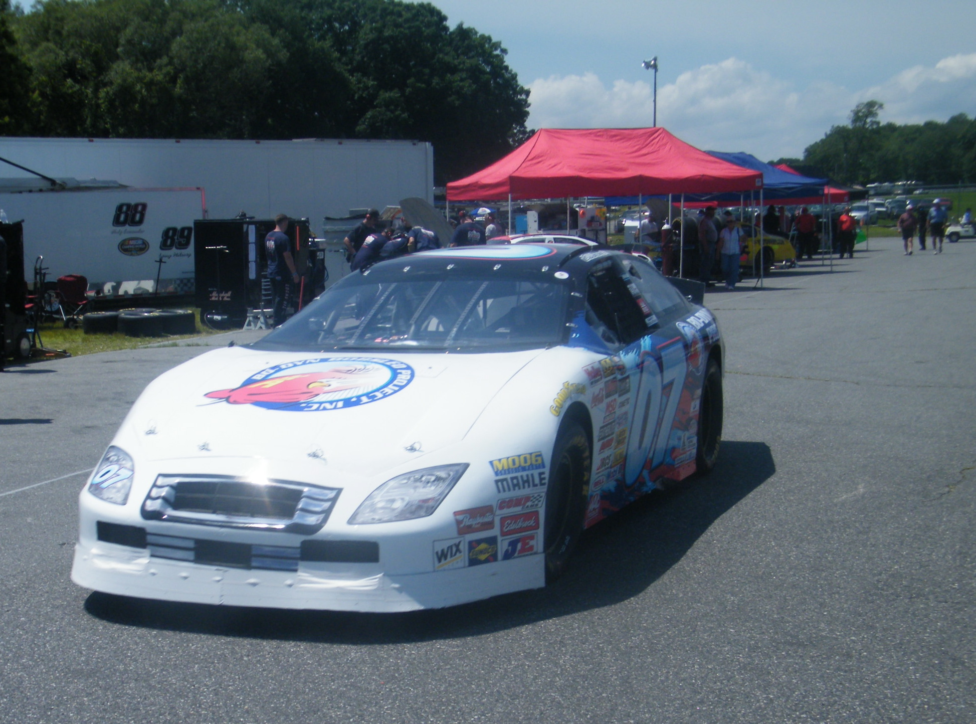 Corey LaJoie's No. 07 Ford at Thompson Speedway before the NASCAR Camping World East Series race there on July 11, 2009.